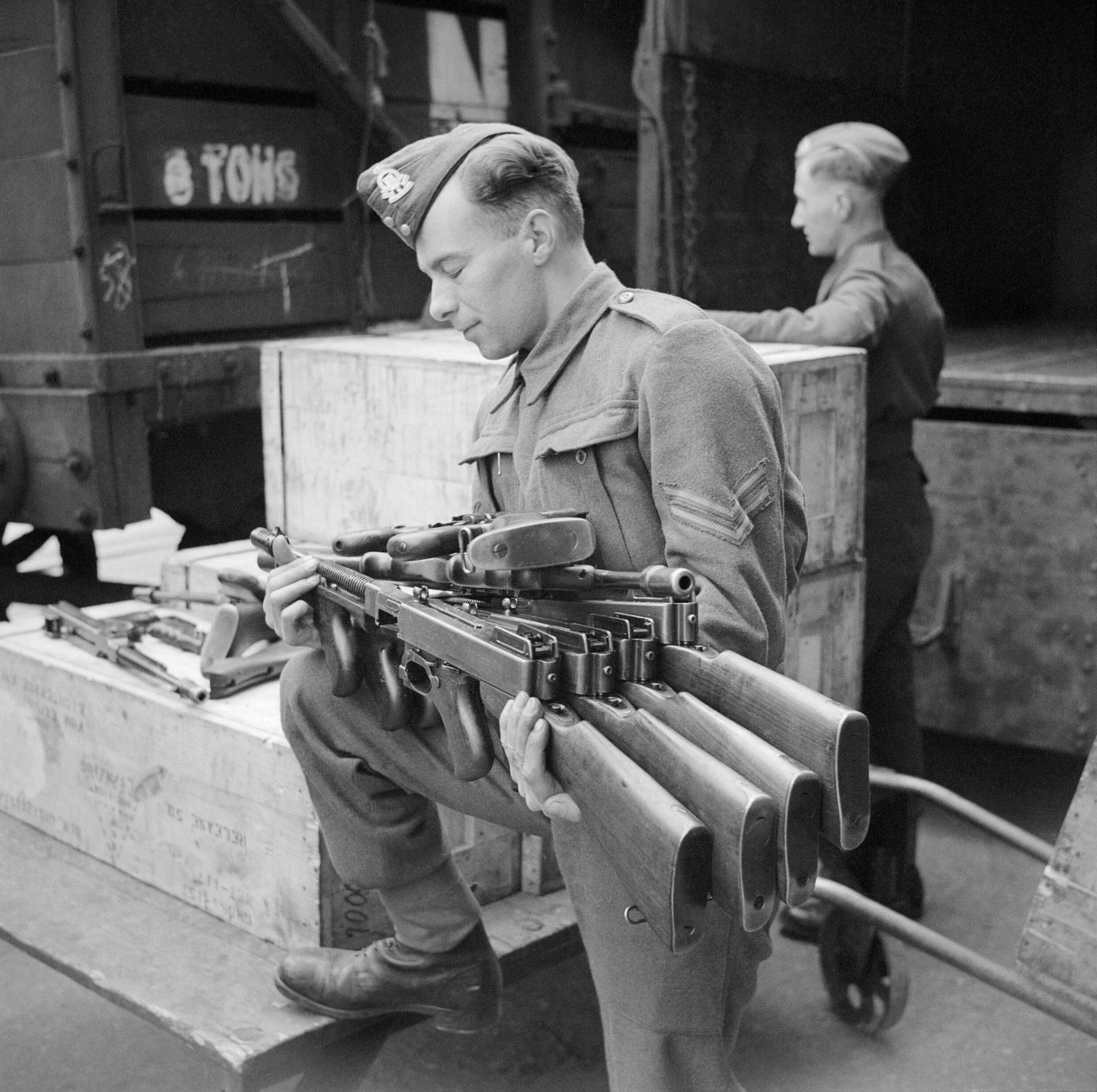 Thompson submachine guns, or 'Tommy guns', being un-crated at an ordnance depot in the UK after their arrival from the US through the Lend-Lease scheme, 23 March 1942. A corporal handles several Thompson 'Tommy' submachine guns at an ordnance depot in the Midlands following their arrival from the United States of America through the Lend-Lease scheme on 23 March 1942.